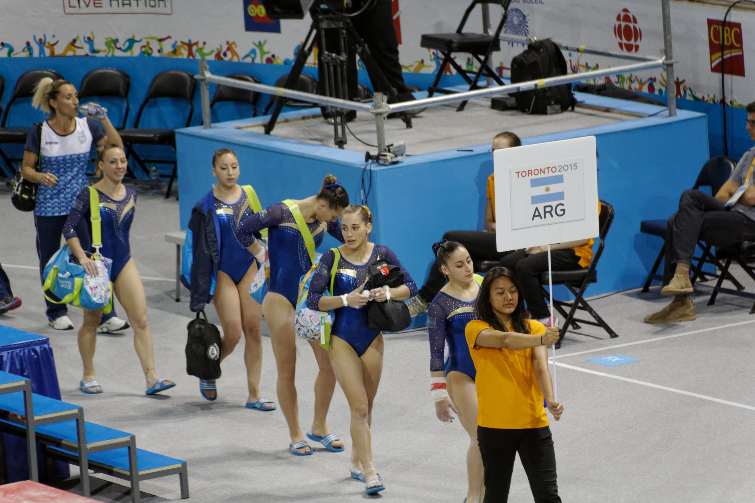 Argentina moving to another routine